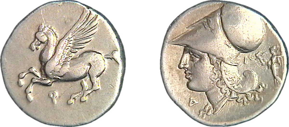 Statère à l'effigie de Pégase Date : c. 330 AC. Nom de l'atelier/ville : Corinthe, Corinthie